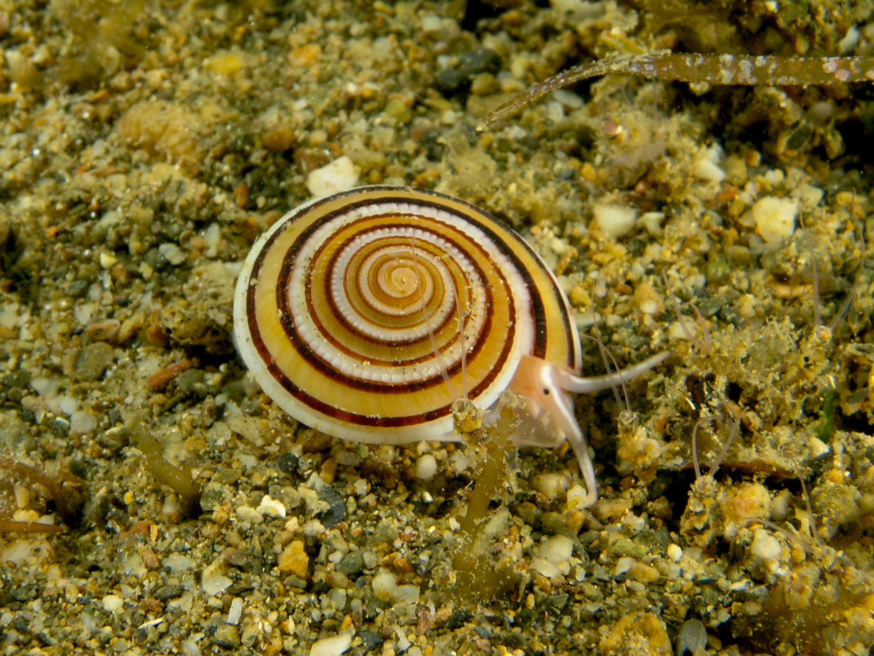 Photo of marine snail Architectonica perpectiva from East Timor.